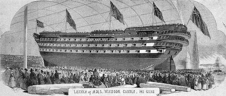 Launch of HMS Windsor Castle in 1852, Illustrated London News